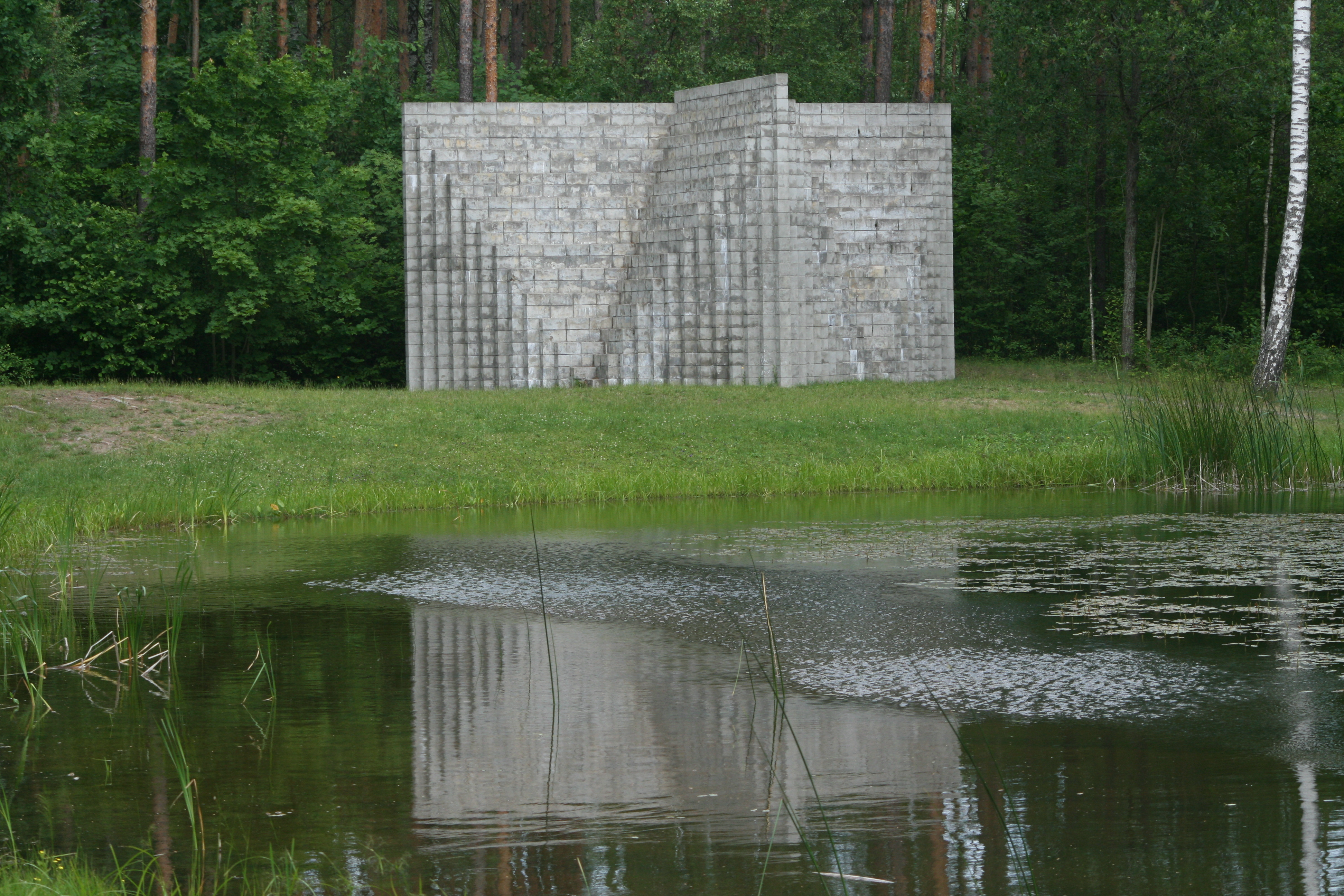 Sol LeWitt. Double Negative Pyramid in Europos Parkas/Lithuania